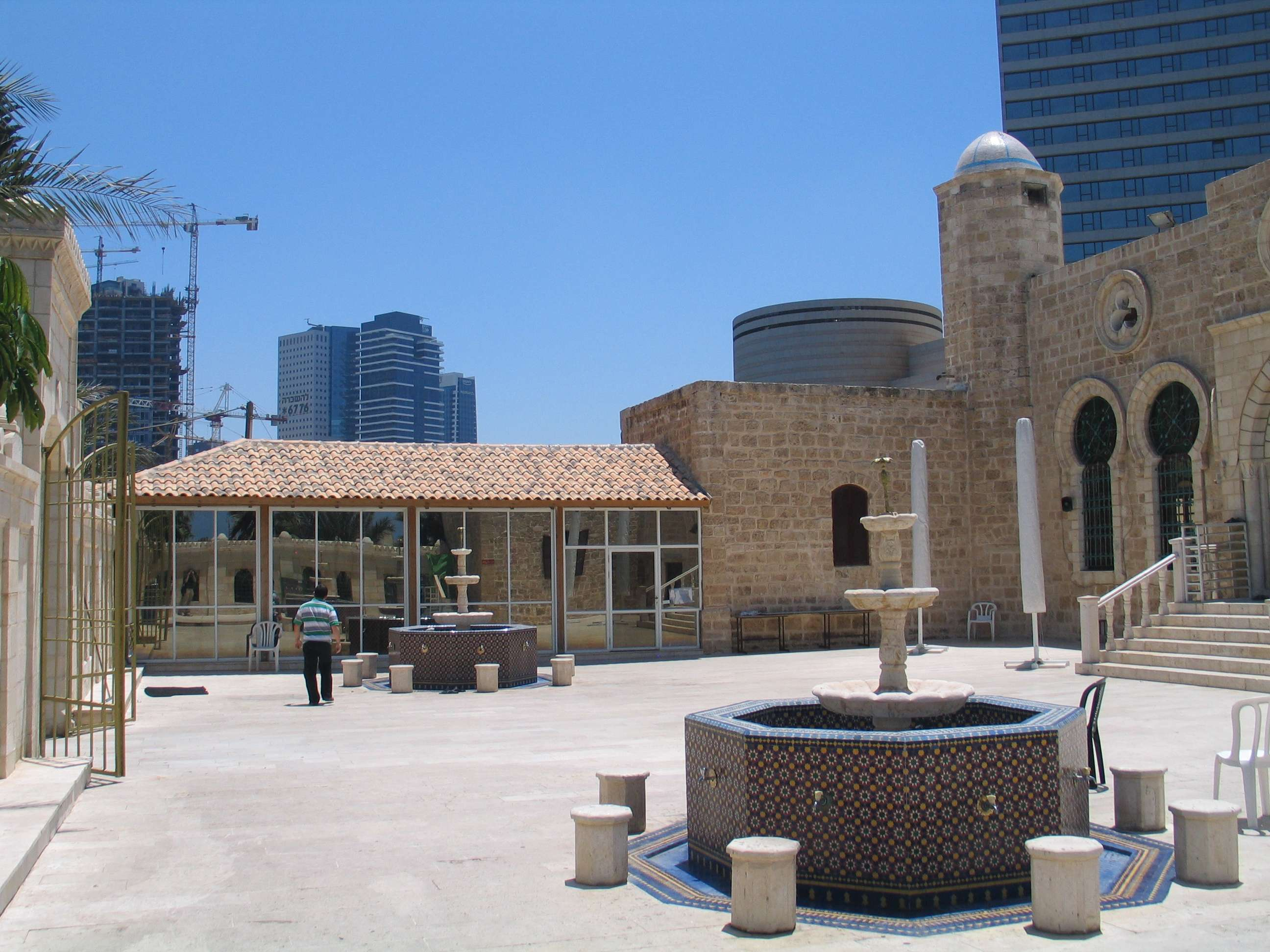 Hassan Bek mosque, Tel Aviv Yafo, Israel.